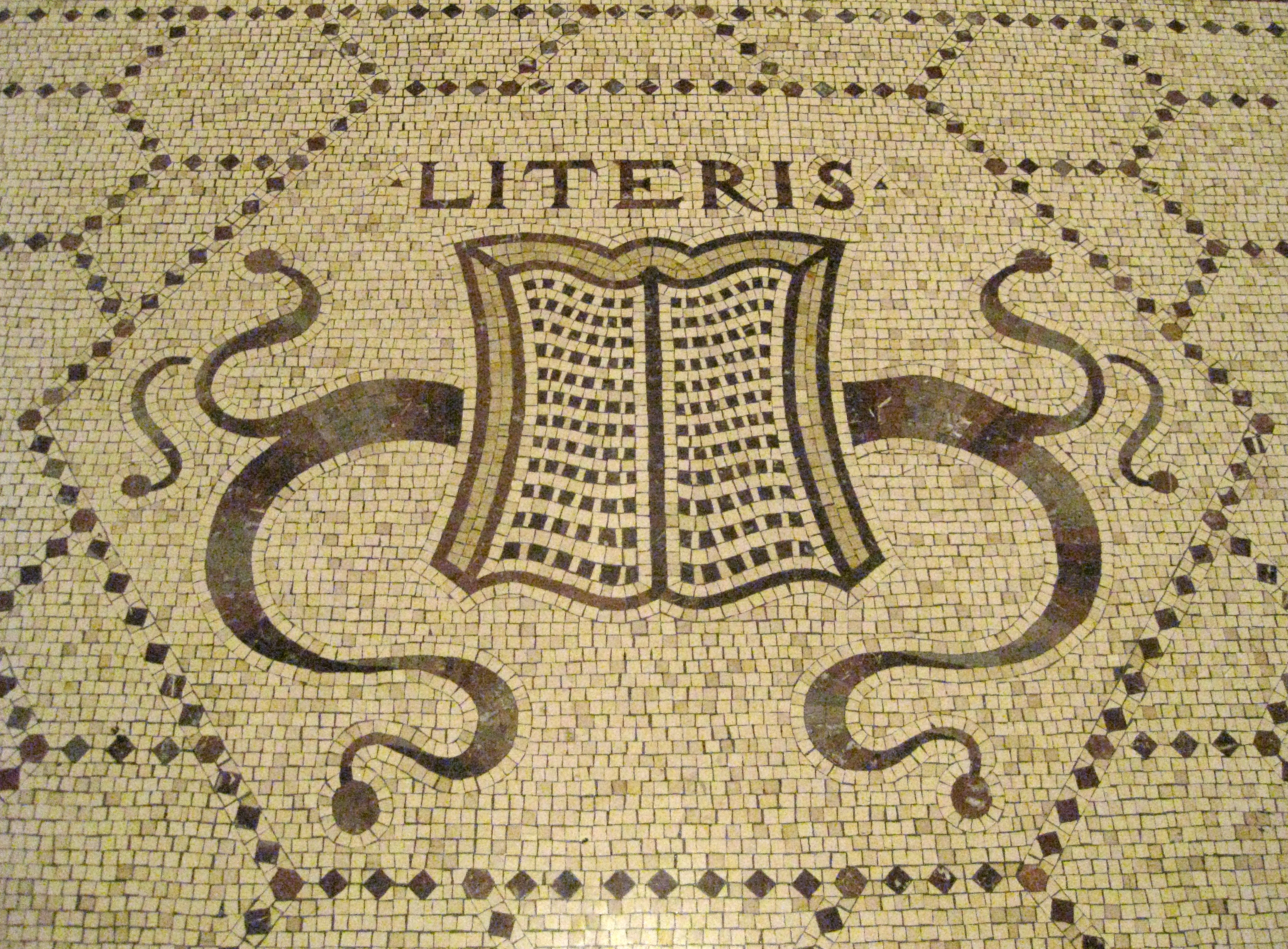 Mosaic floor on a stairwell landing at 78 E. Washington St. The building was designed by Shepley, Rutan and Coolidge and completed in 1897.